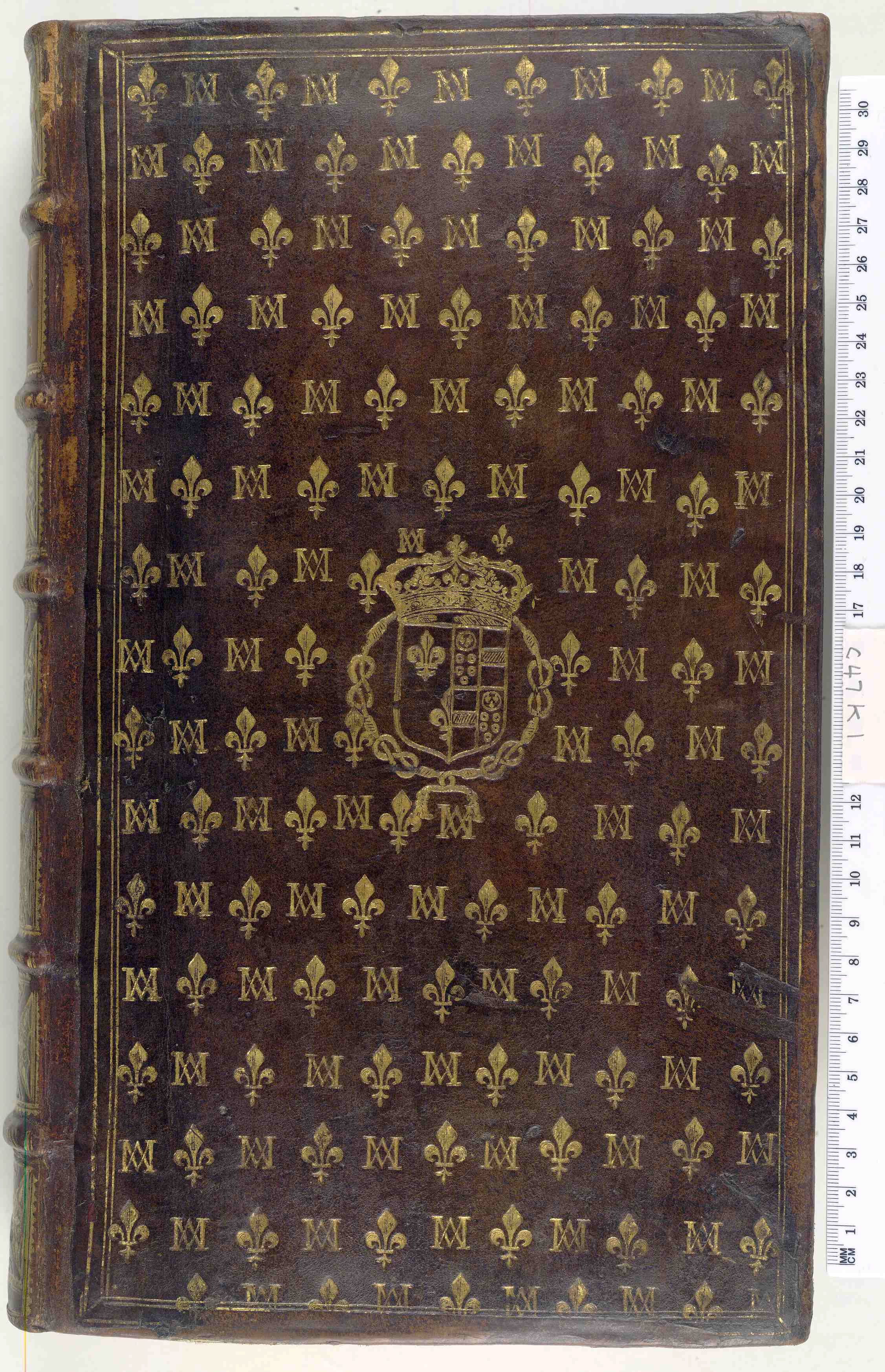 Style: Armorial|Semis, background of small tools; Caption: Upper cover; Colour: Brown; Edge: Unspecified